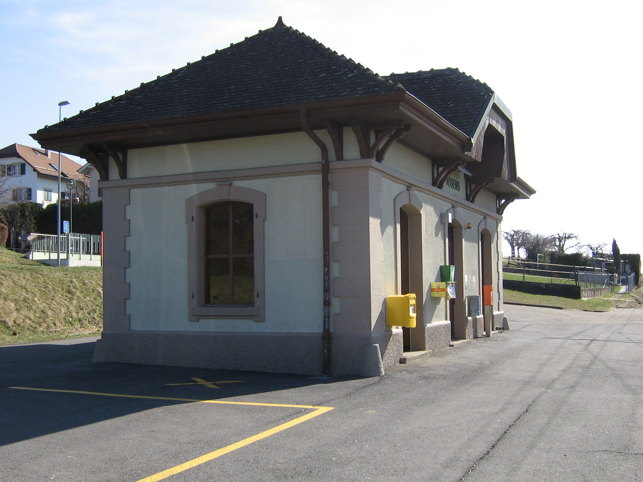 View of the building of the railway station of Assens.